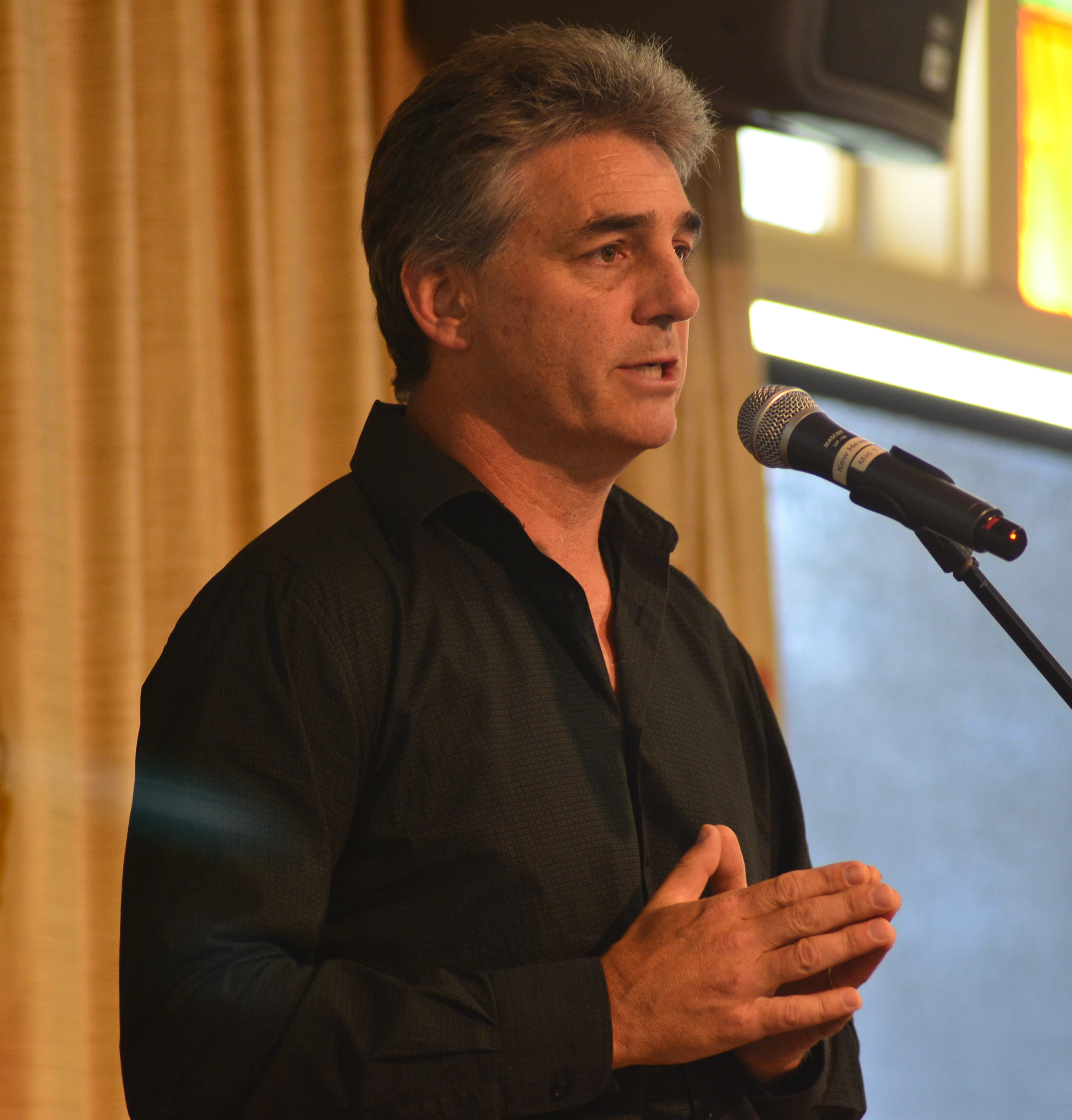 David Lindenmeyer talking about the preservation of Leadbeaters Possum in Melbourne on 27 November 2012